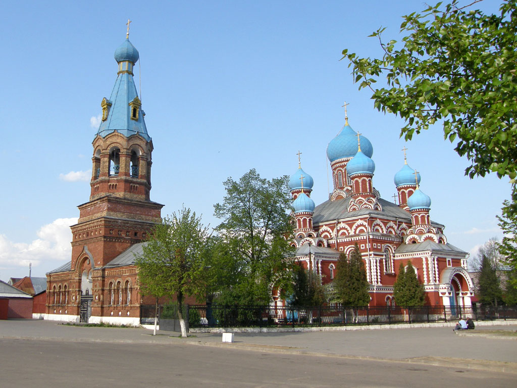 Church of the Resurrection of Christ in Barysau City, Belarus